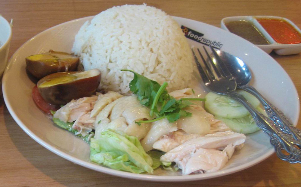 Hainanese Chicken Rice. Taken by Terence Ong in March 2006, modified by Vsion.